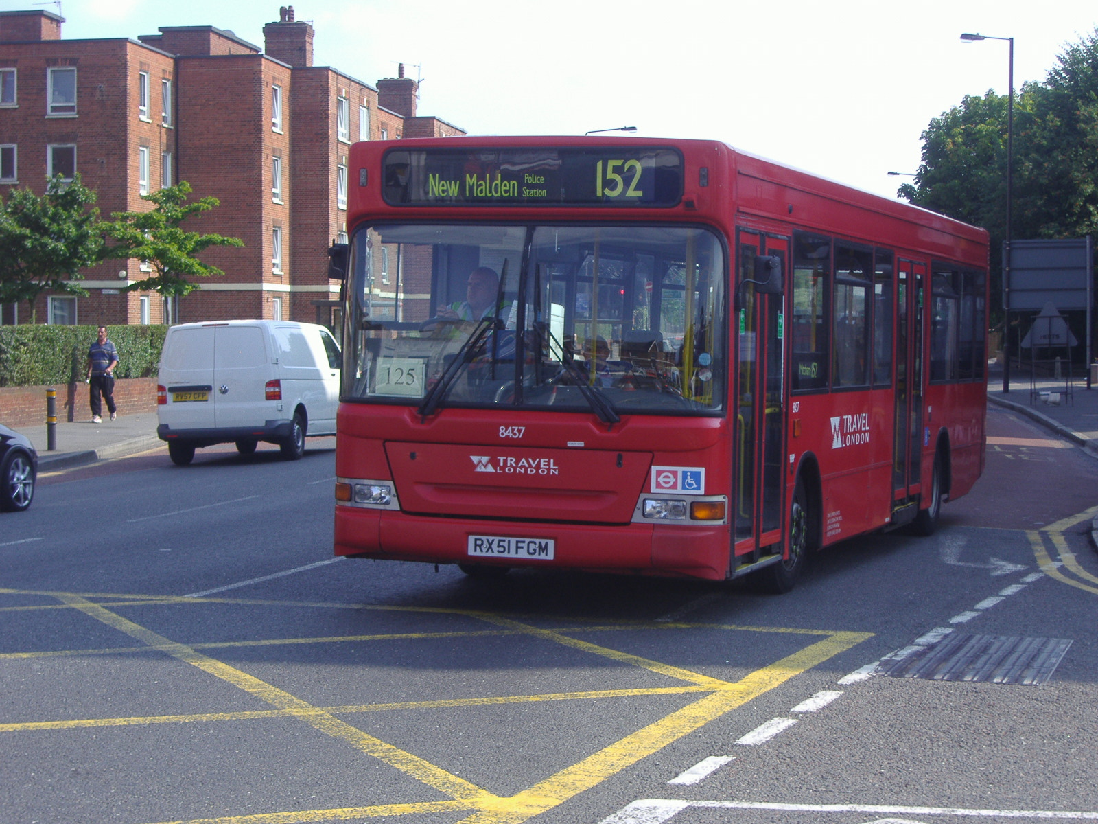 Kingston Road